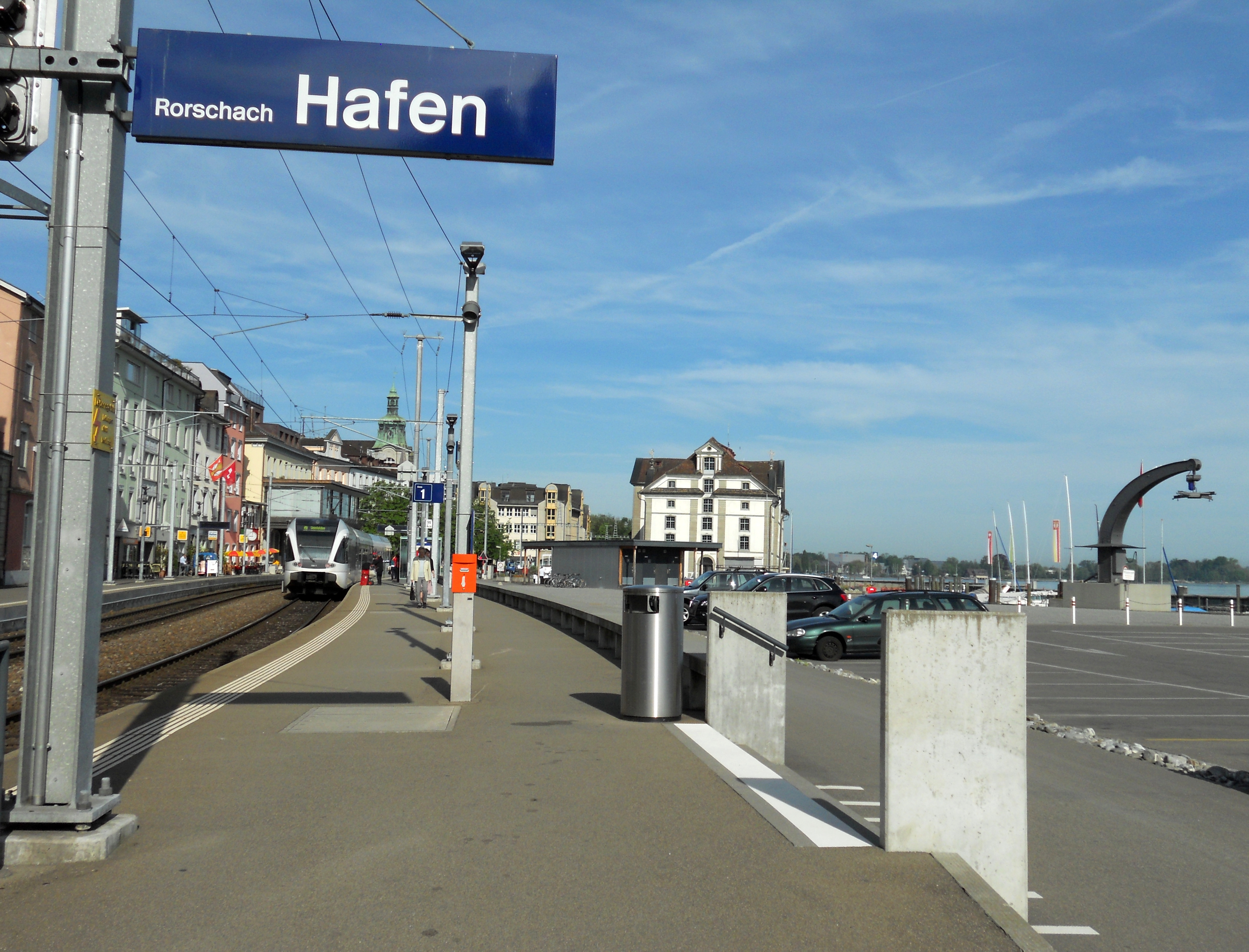 platform of the station "Rorschach Hafen" (Switzerland)